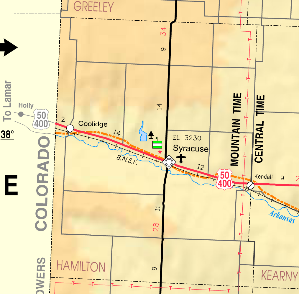 This map of Hamilton County, Kansas, USA, is copied at a resolution of 300 pixels/inch from the original PDF file.